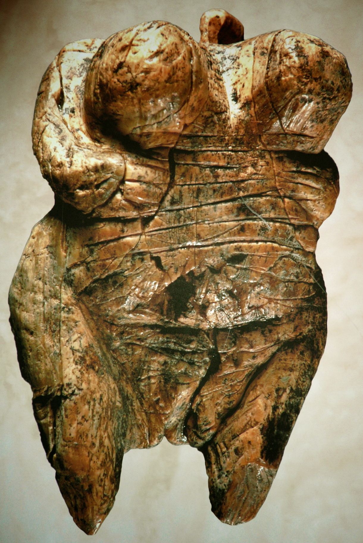 Paleolithic figure Venus of Hohlefels (of mammooth ivory)